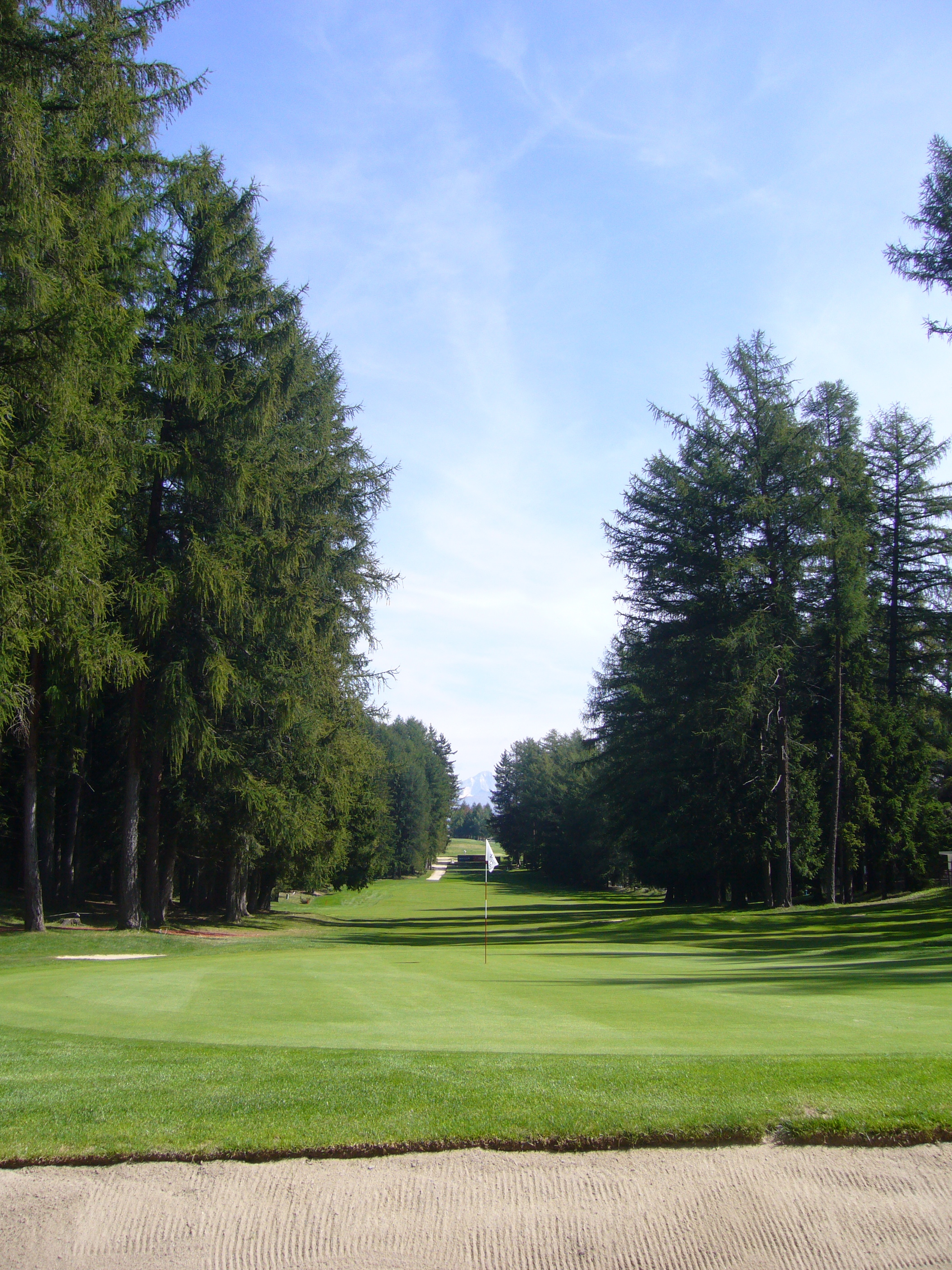 Ballesteros Course in Crans, Switzerland, Hole 6